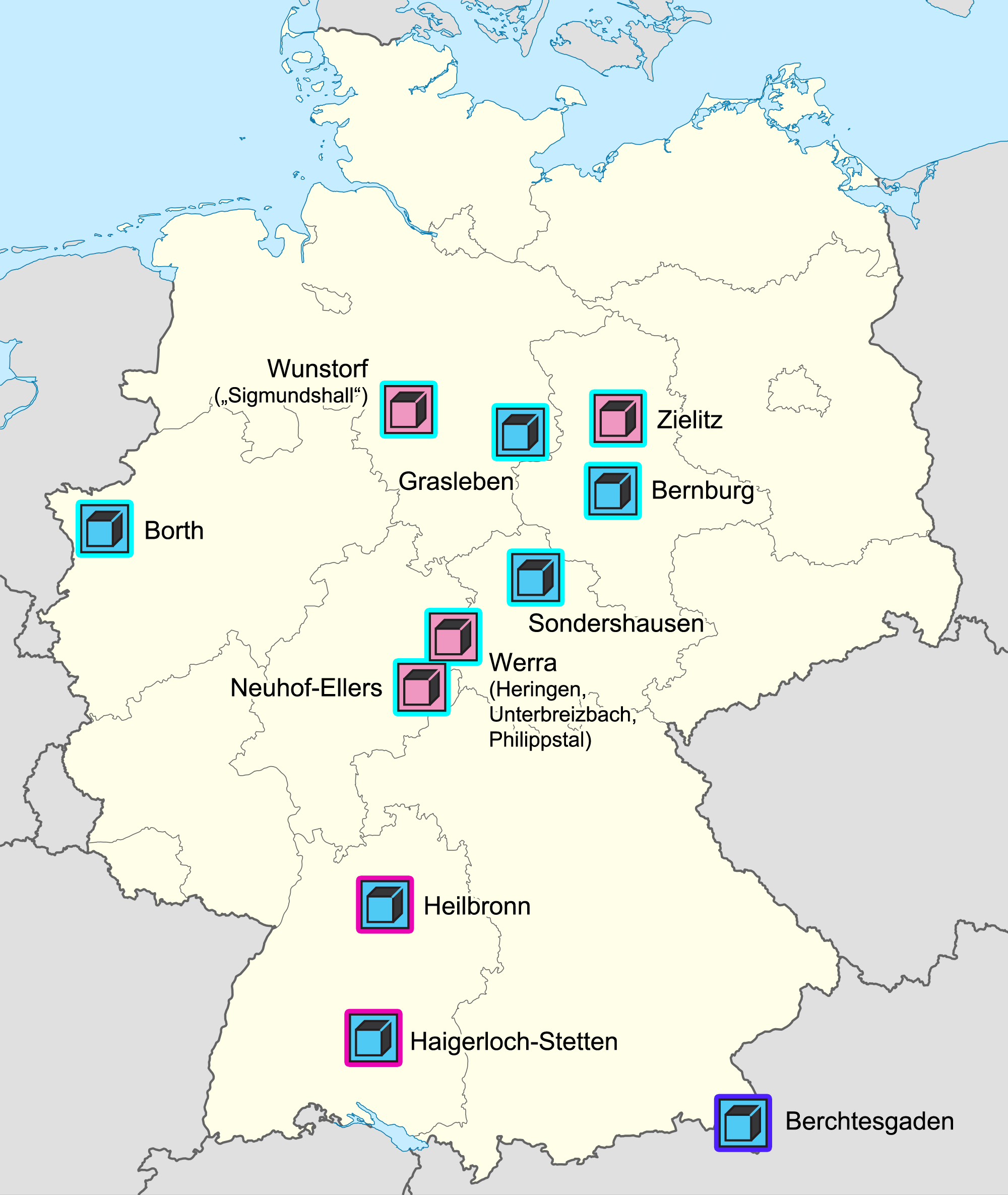 Salt mines in Germany. Meaning of symbols: light pink=potash mine, blue=rock salt mine; meaning of frame colour=source level: light blue=Zechstein (Upper Permian), dark pink=middle Muschelkalk (Middle Triassic), violet=alpine Permotriassic